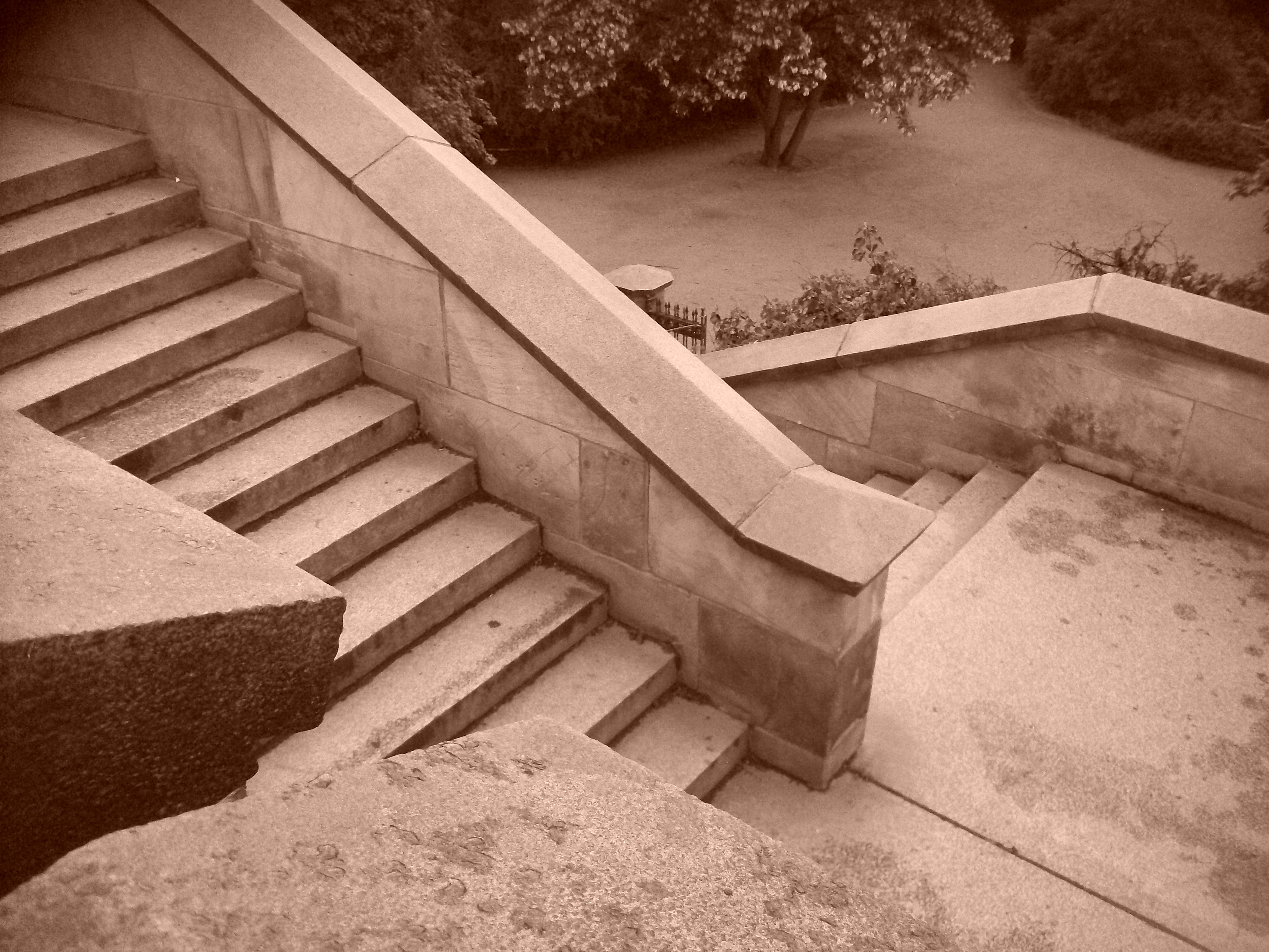 monument on top of viktoria park in berlin-kreuzberg, germany